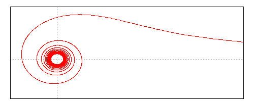 Author: :it:User:Roberto.zanasi. The lituus function.